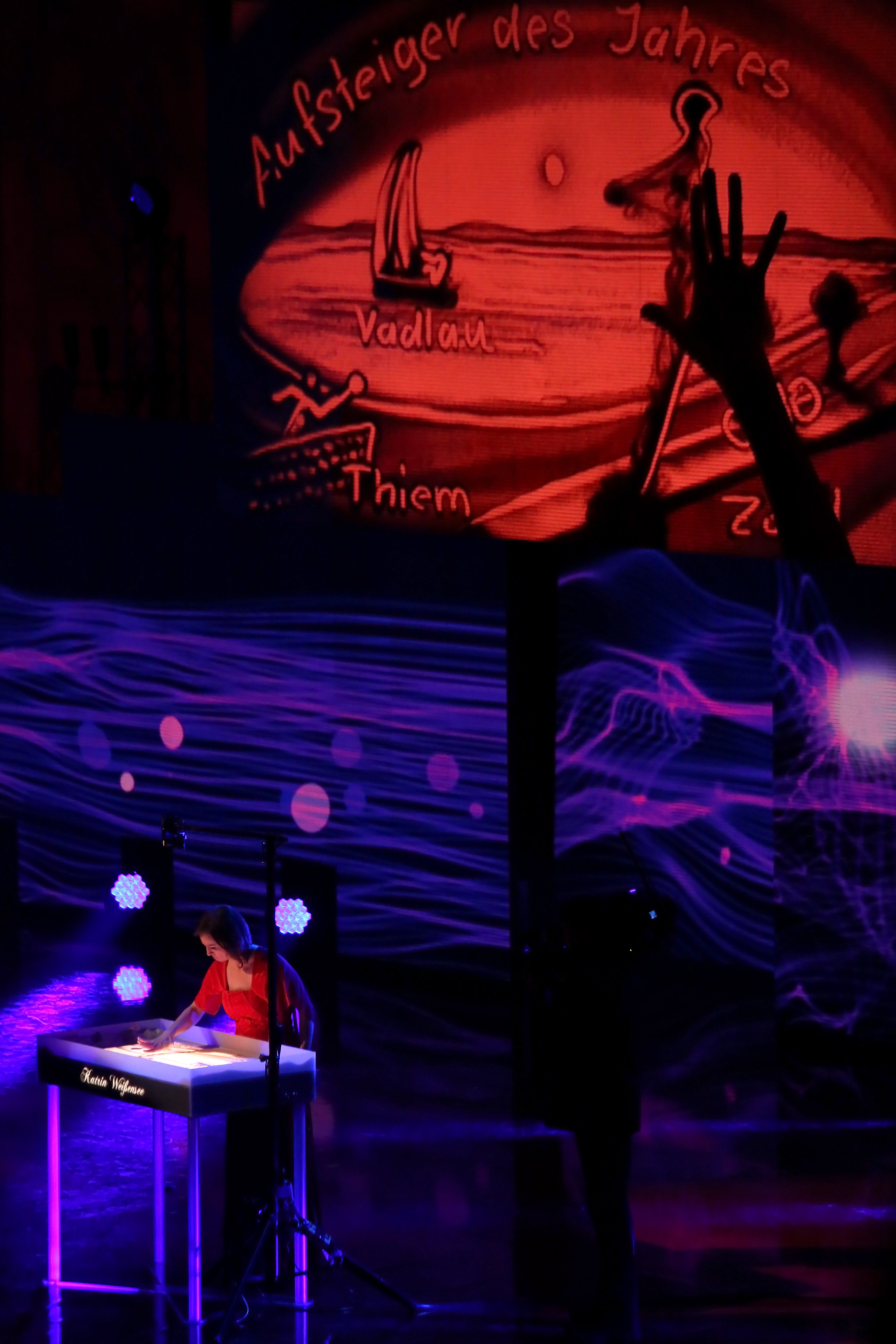 Katrin Weißensee at the award show for the Austrian Sportspersonalities of the Year 2013 at Austria Center Vienna (Vienna, Austria).